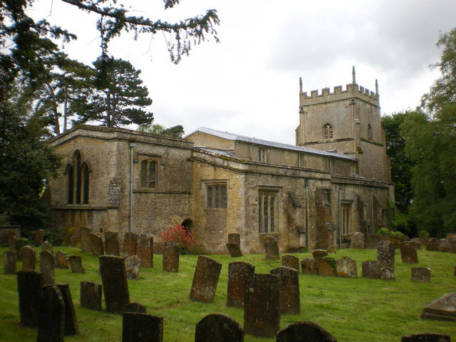 The Parish Church of St Kenelm's, Enstone